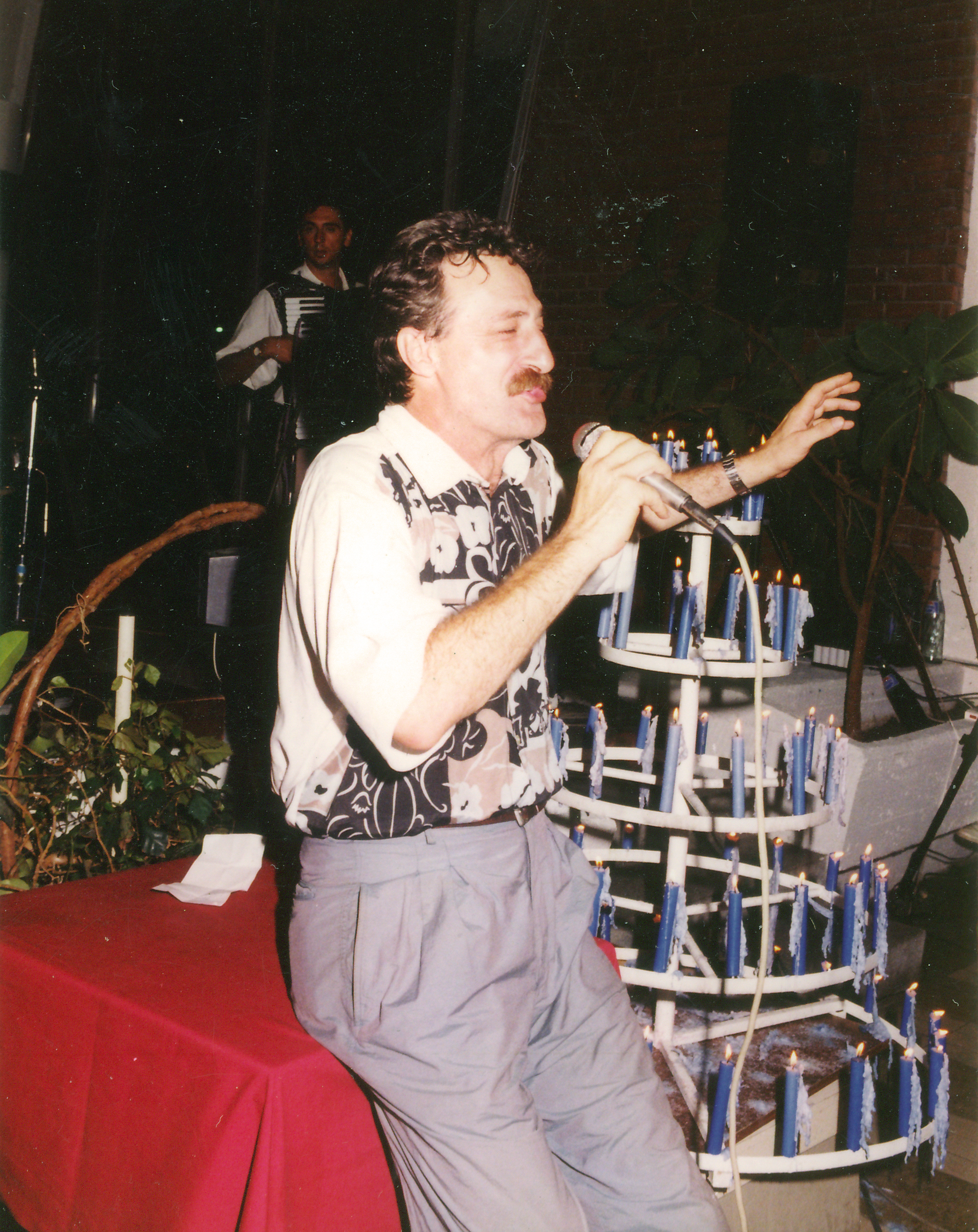 Serbian actor Desimir Stanojević, mid 90's